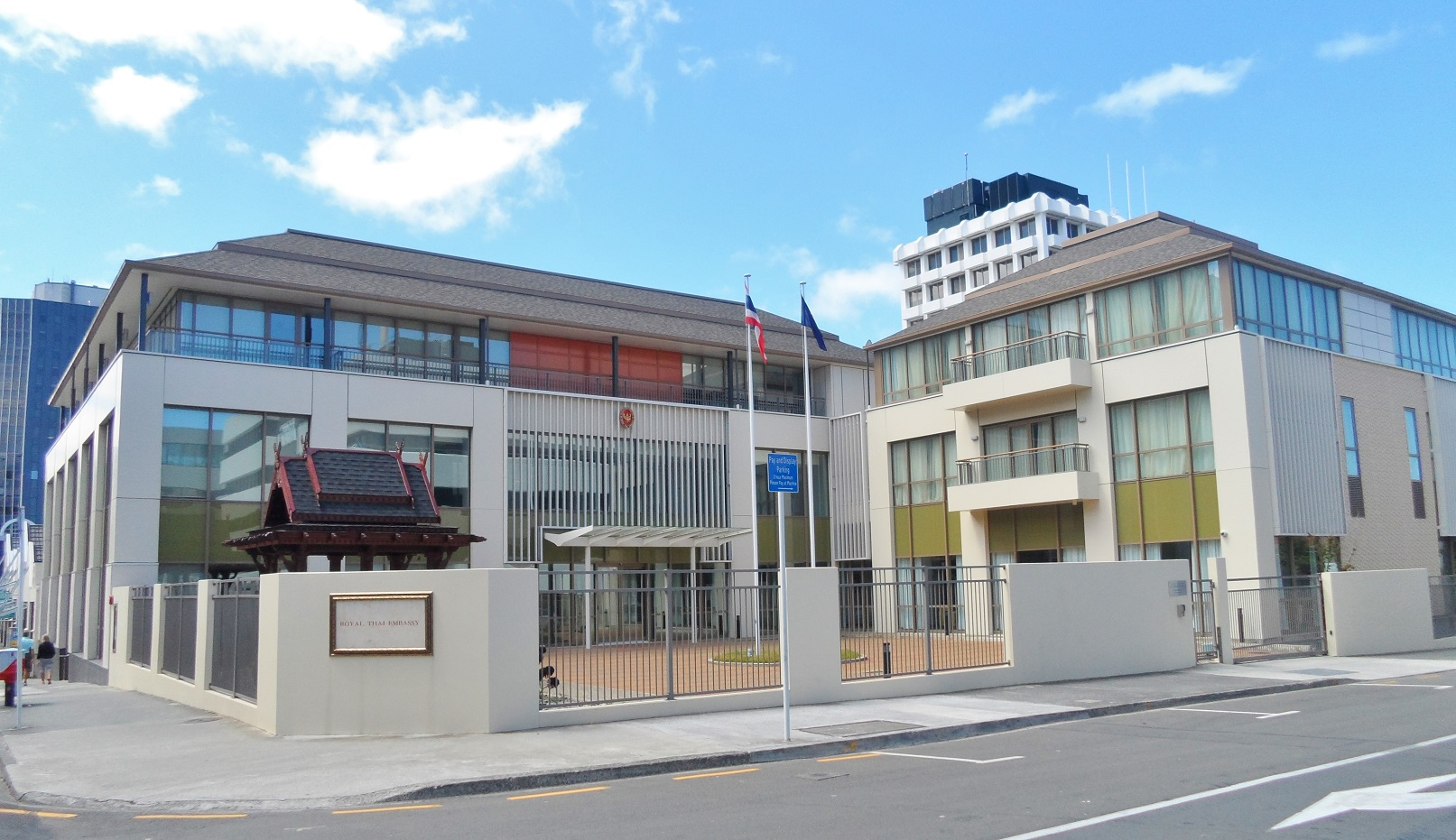 Royal Thai Embassy in Wellington, New Zealand in 2015.